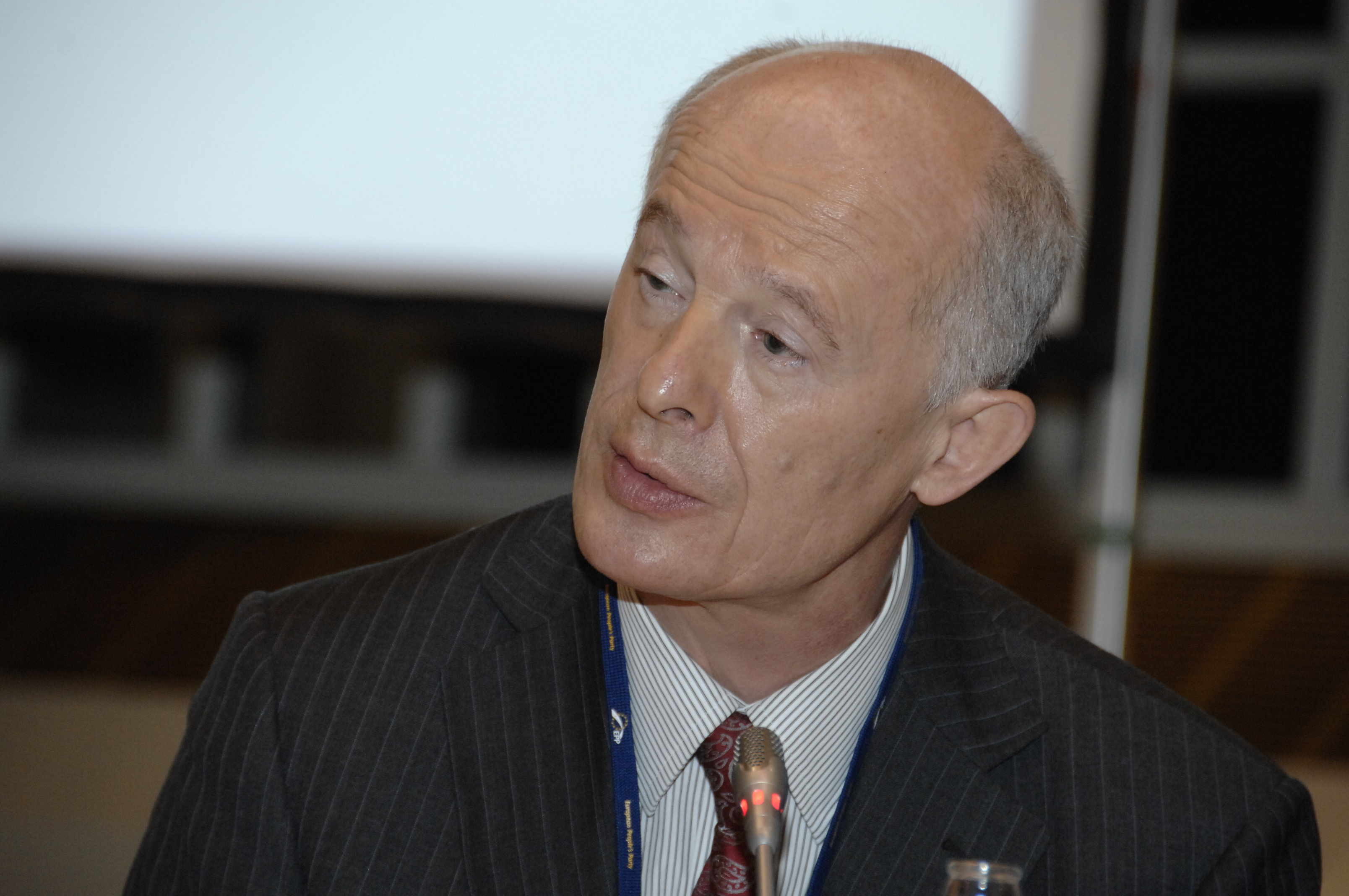 EPP Congress Bonn